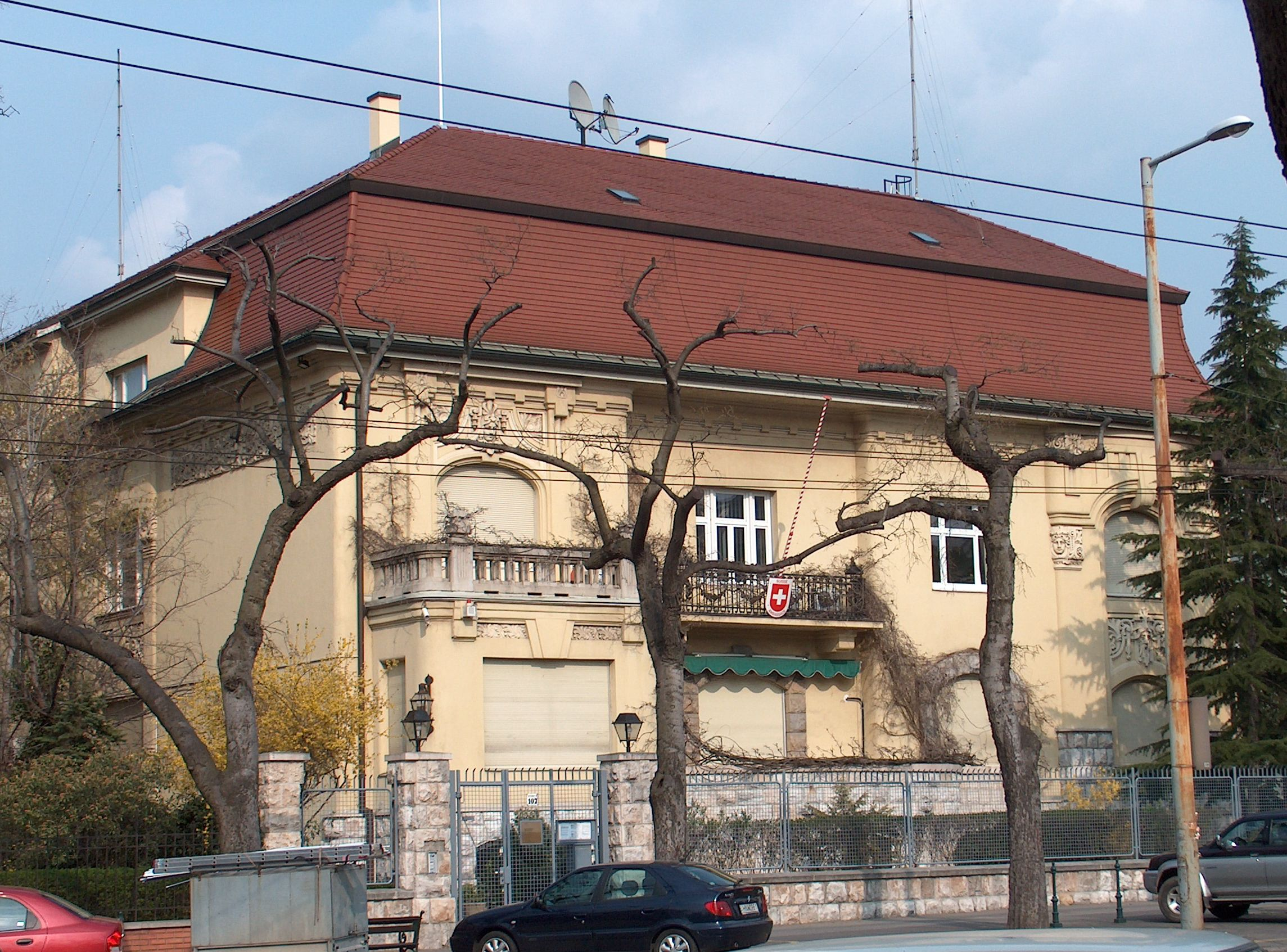 Embassy of Switzerland - Budapest